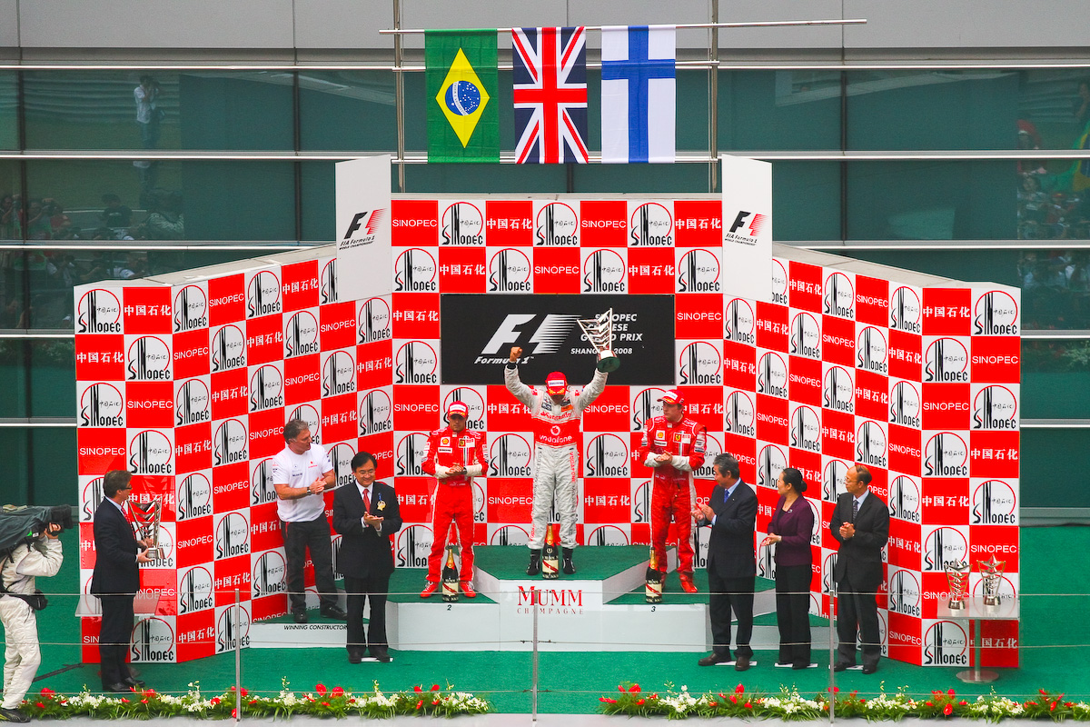 2008 Chinese Grand Prix, Top 3